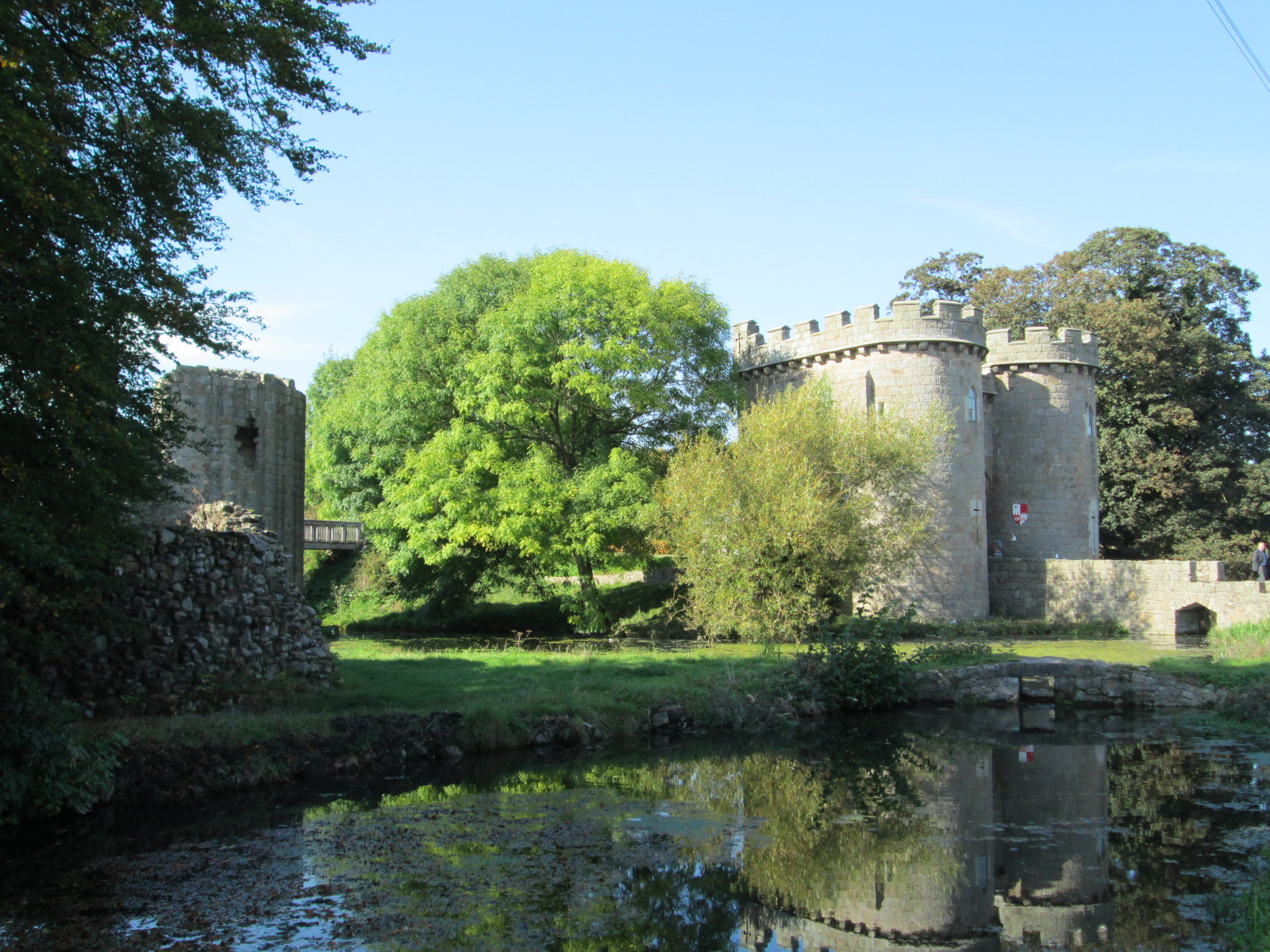 View of Whittington Castle from the main road that goes through Whittington, the B5009.